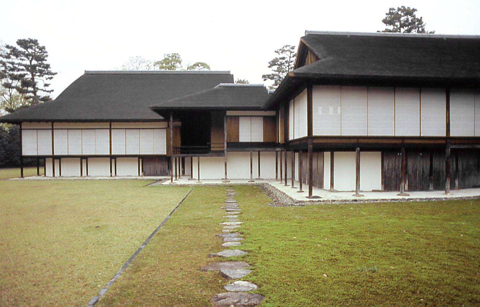 Shoin of Katsura rikyu, 1660. Kyoto